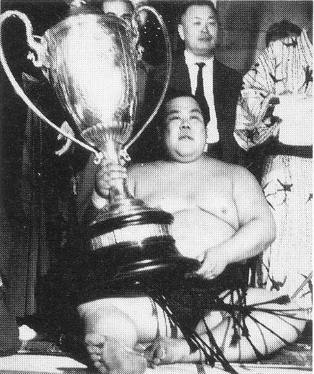 Azumafuji Kin'ichi (Top Division Champion of Natsu Basho 1950).